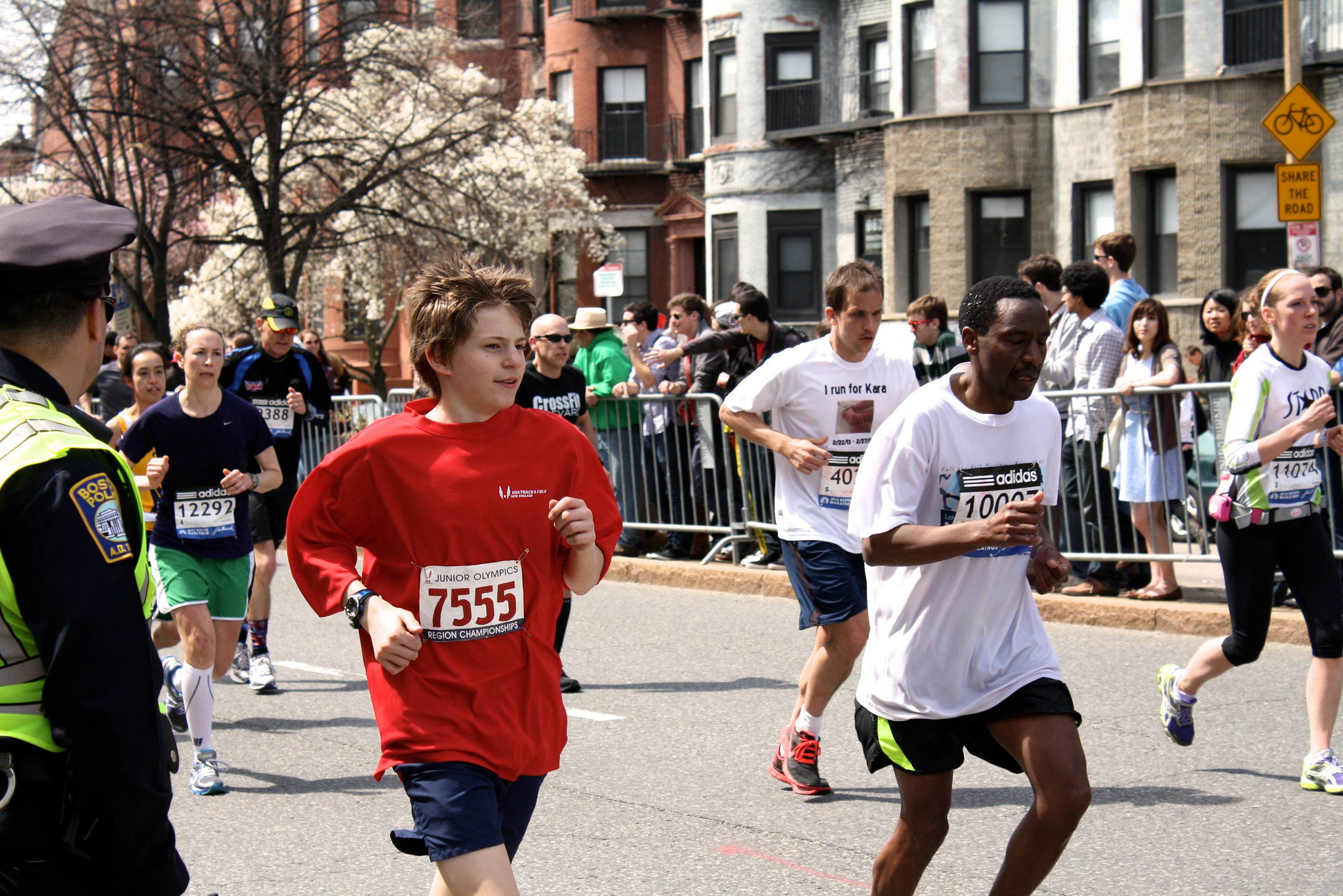 Copyright © 2013 Sonia Su. Boston Marathon.